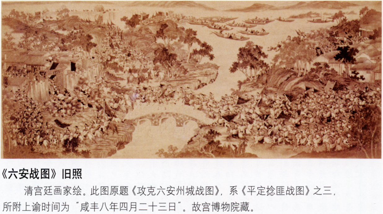 A battle of the Nien Rebellion (1851–1868). From "Victory over the Nian", a set of eighteen paintings.